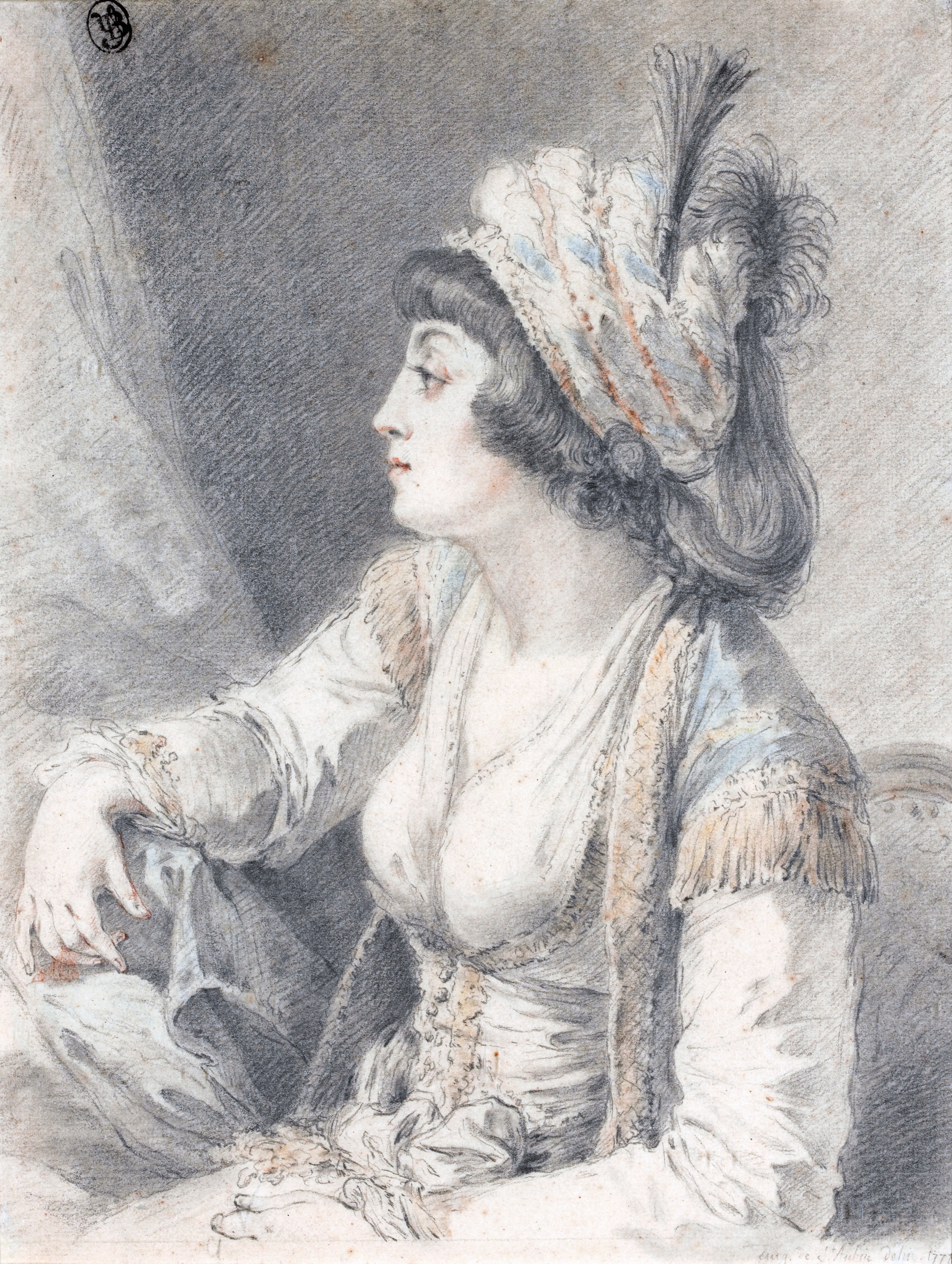 Validé ou la Sultane Mère (impersonated by a French model in a Turkish dress) black chalk with touches of red anbd blue and yellow wash 19.7 x 15 cm signed l.r.: Aug. de Saint-ubin delin 1777